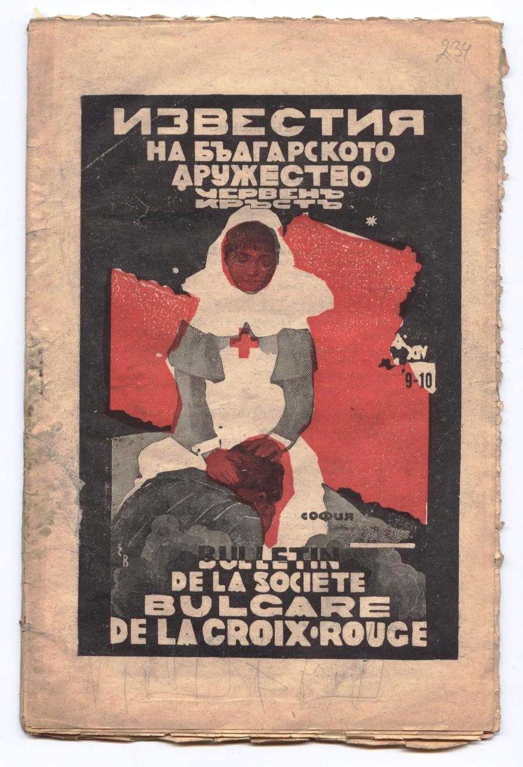 The cover of the Bulletin of the Bulgarian Red Cross, year 14, vol. 9-10, 1931